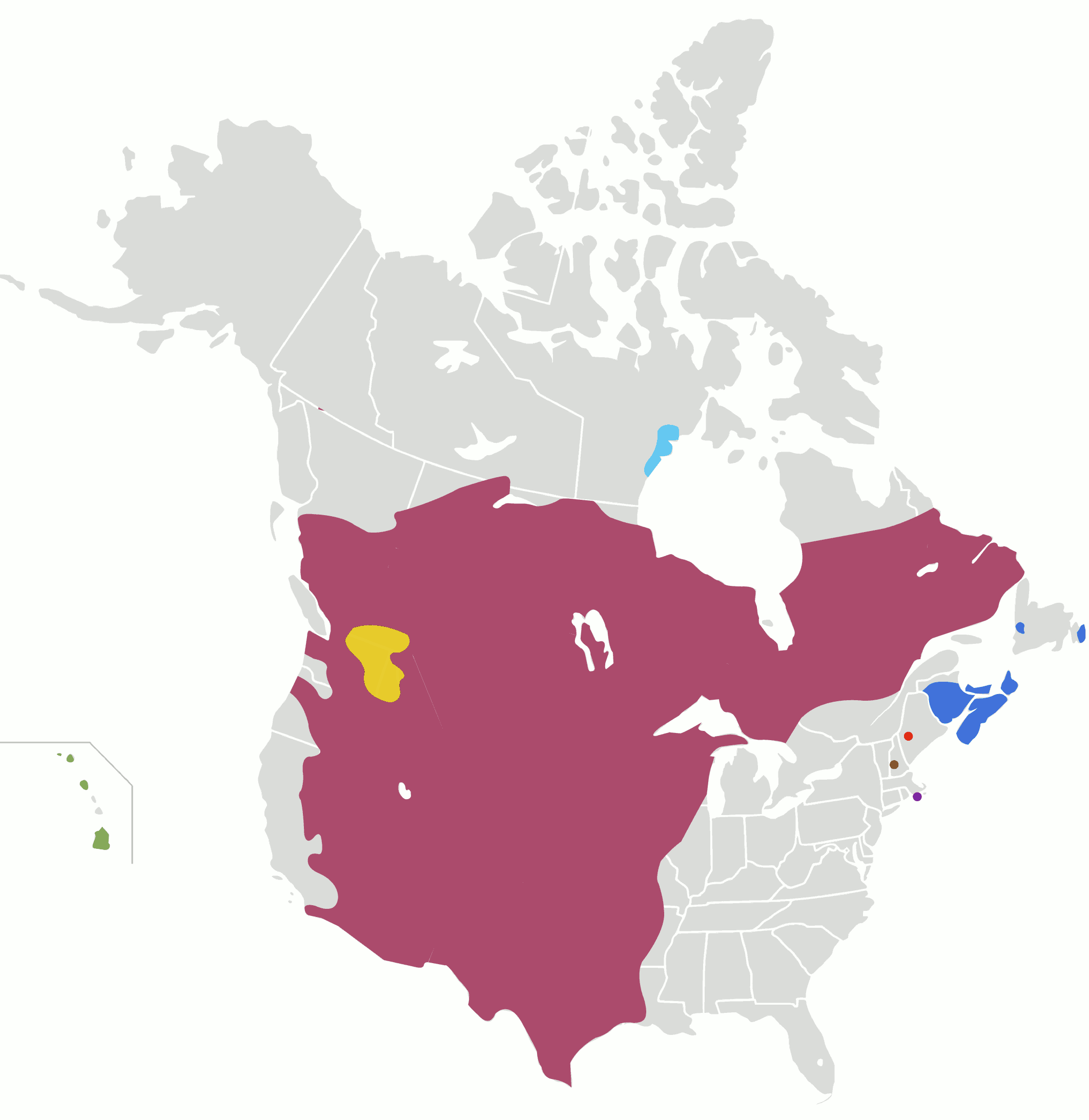 Map showing the extinct and extant signed languages of the United States and Canada at their maximum attested historical ranges, purposefully excluding the dominating languages ASL and LSQ. Other potential languages such as Navajo Sign Language which may be dialects of Plains Sign Talk have been included under the PST umbrella. Plains Sign Talk Inuiuuk (ᐃᓄᐃᐆᒃ) Hawai'i Sign Language Maritime Sign Language Extinct Languages Plateau Sign Language Martha's Vineyard Sign Language Henniker Sign Language Sandy River Valley Sign Language